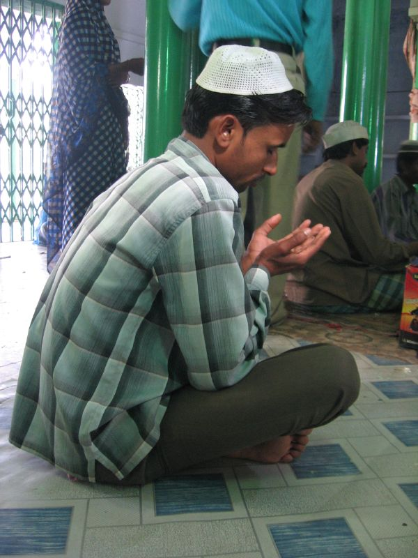 Indian Muslim man sitting cross-legged on the floor, wearing a prayer cap with hands extended upwards.photos from john 543-1